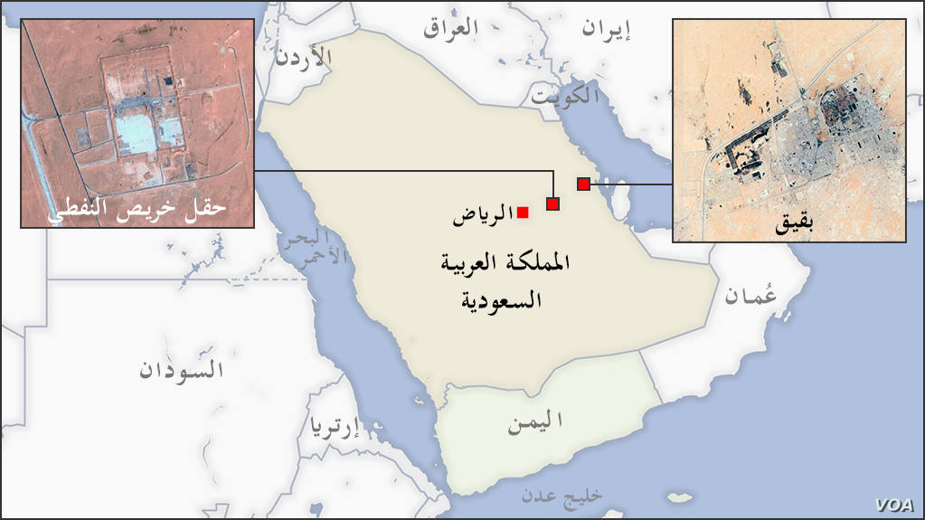 Khurais oil field and Buqyaq Saudi Arabia